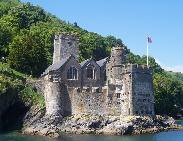 Dartmouth Castle A view of Dartmouth castle and St Petrox church, taken from the castle ferry.